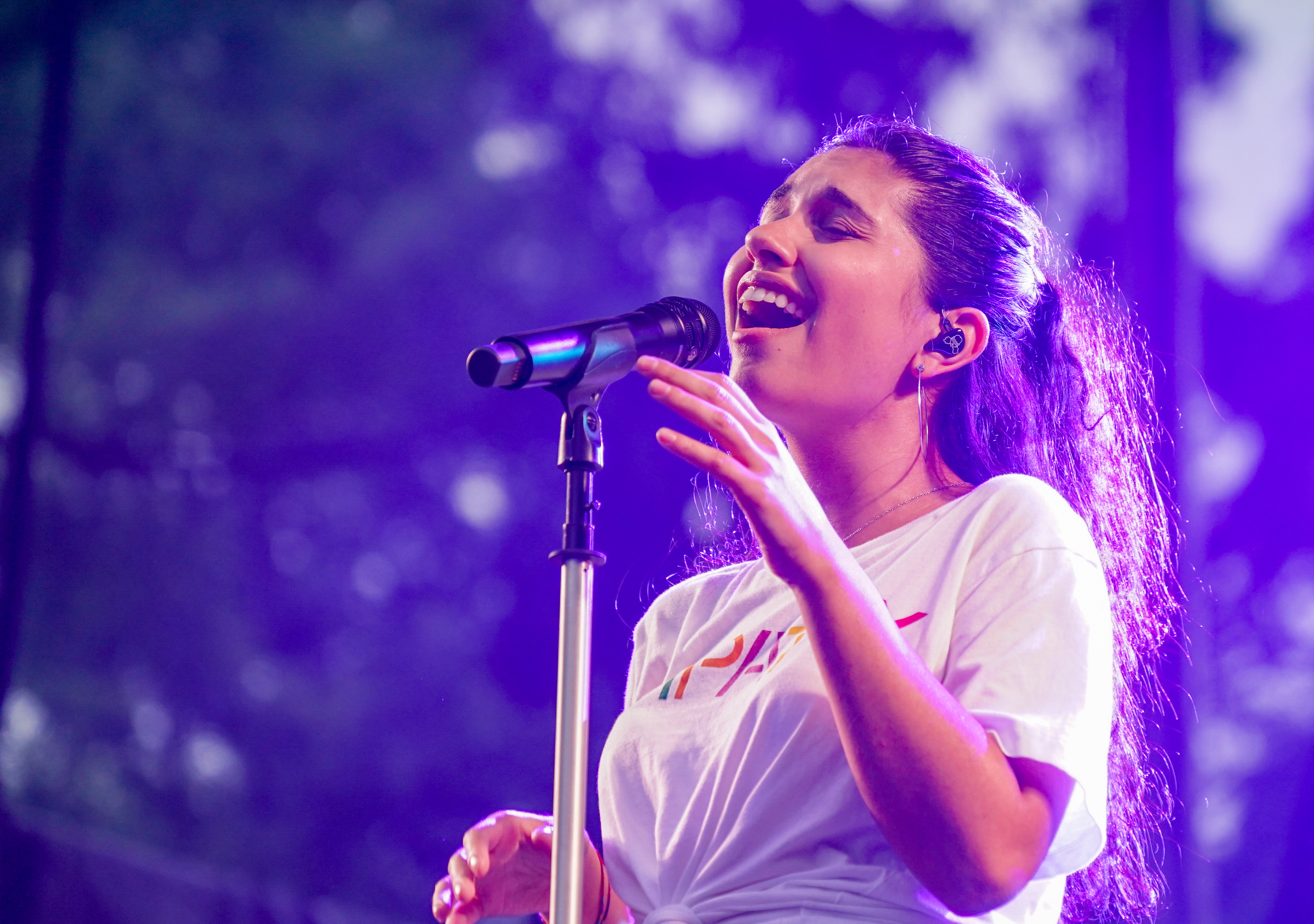 Honored to be part of the media team capturing the performance of Alessia Cara at the 2018 Capital Pride Concert, Washington, DC USA